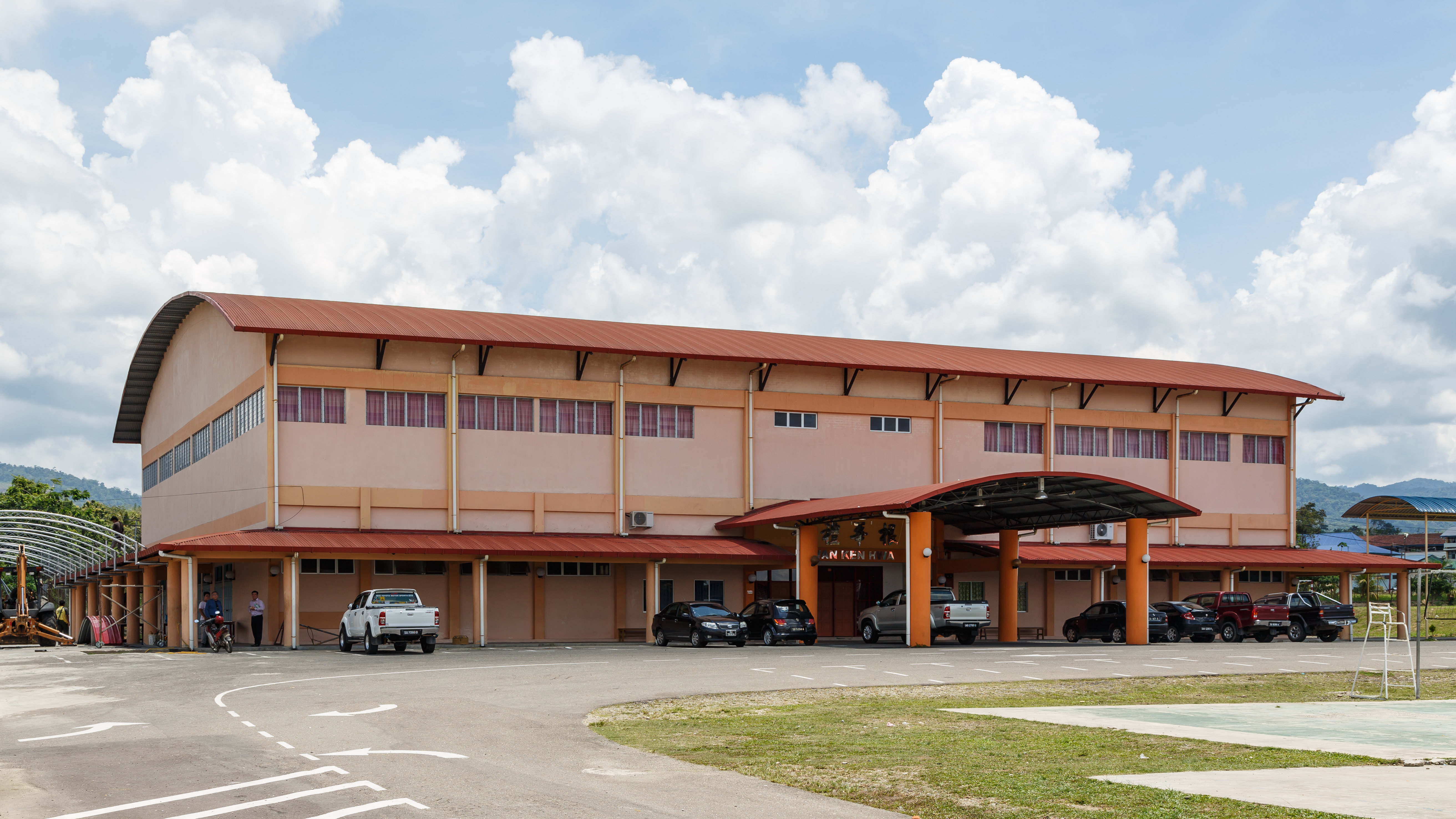 Keningau, Sabah: Sekolah Menengah Ken Hwa (CF)